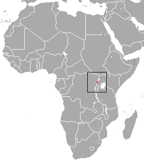 Montane Mouse Shrew (Myosorex blarina) range